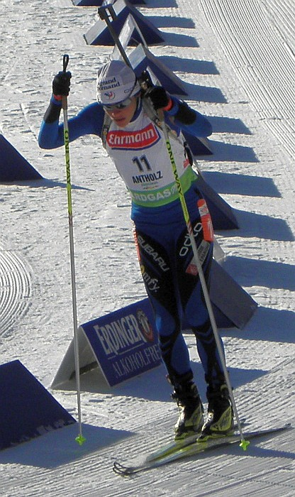 Sylvie Becaert in Antholz, 22-01-2010